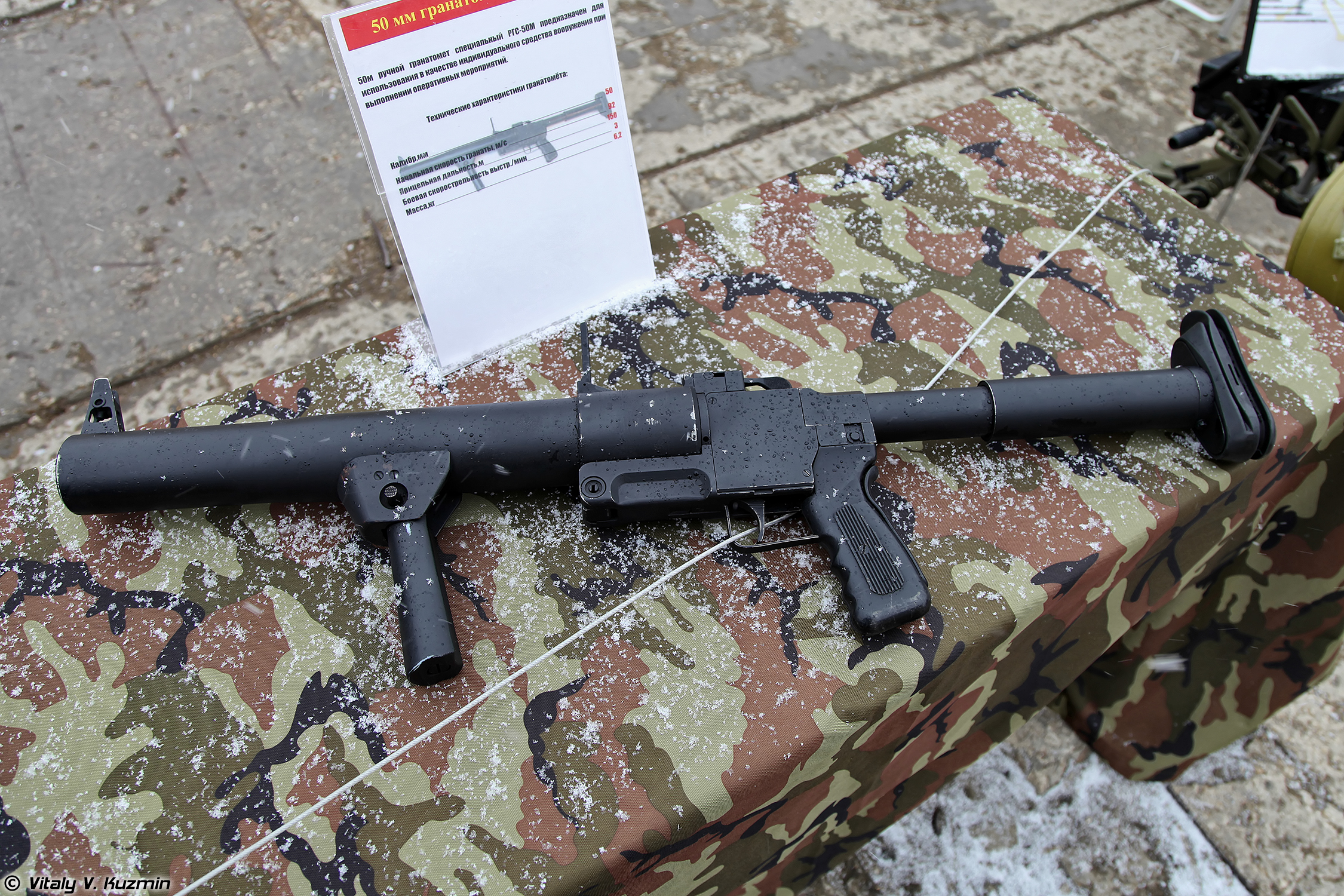 RGS-50M grenade launcher